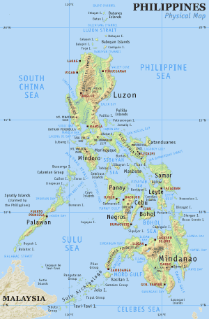 Small physical map of the Philippines, showing all the major and some minor islands, bodies of water, mountains, and some major cities.